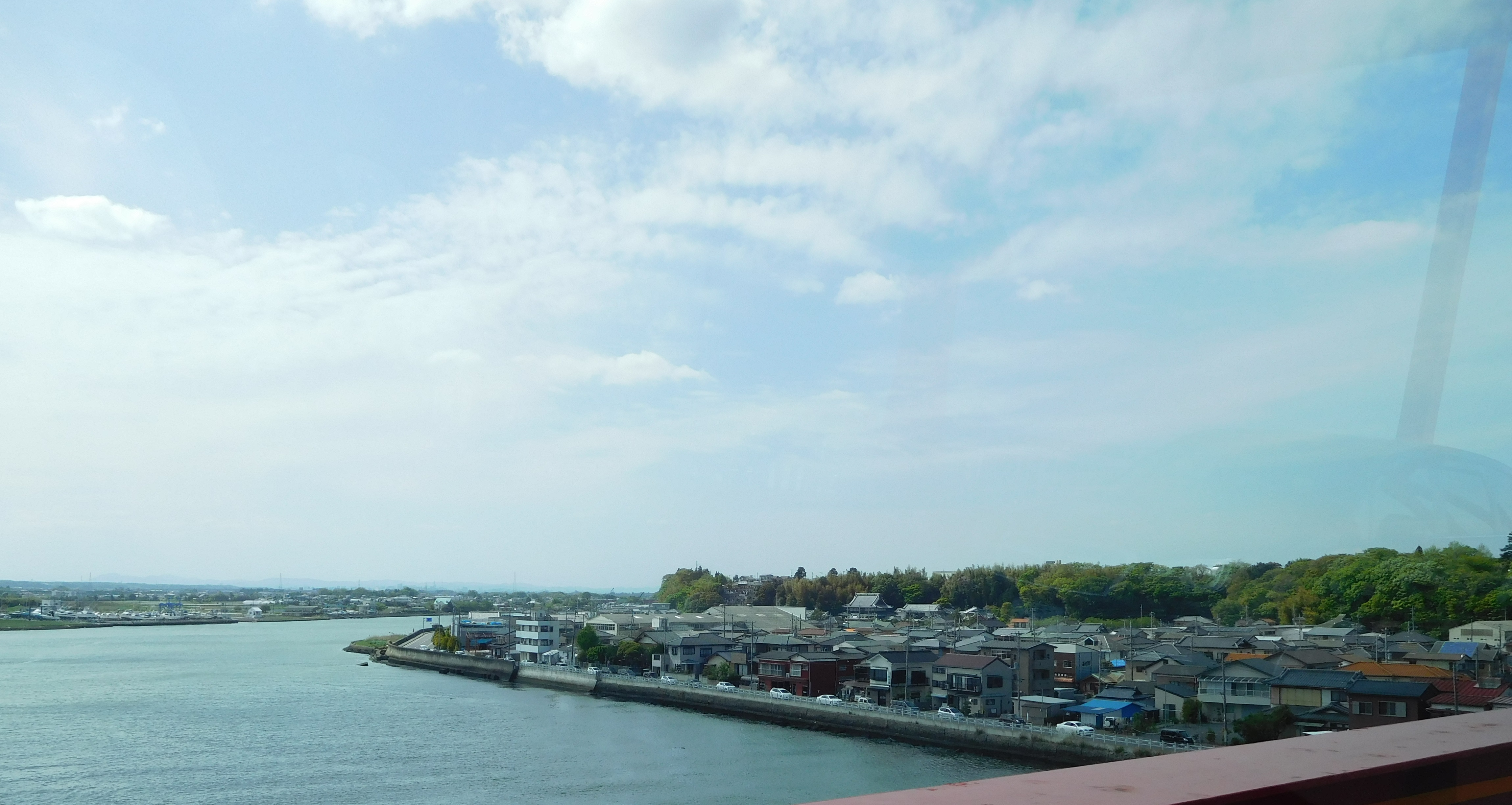 This is a landscape of Kaimon-cho 2 chome, Hitachinaka city, Ibaraki prefecture, Japan.